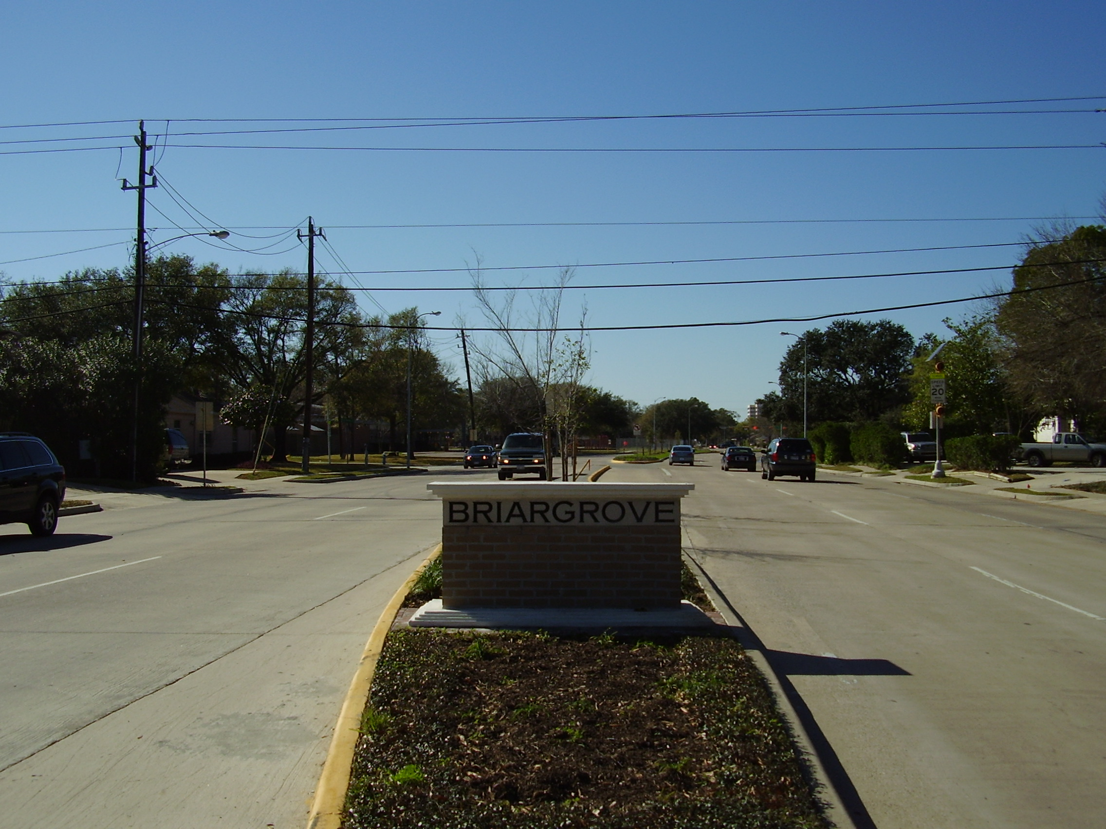 Sign indicating Briargrove in Houston - Originally at